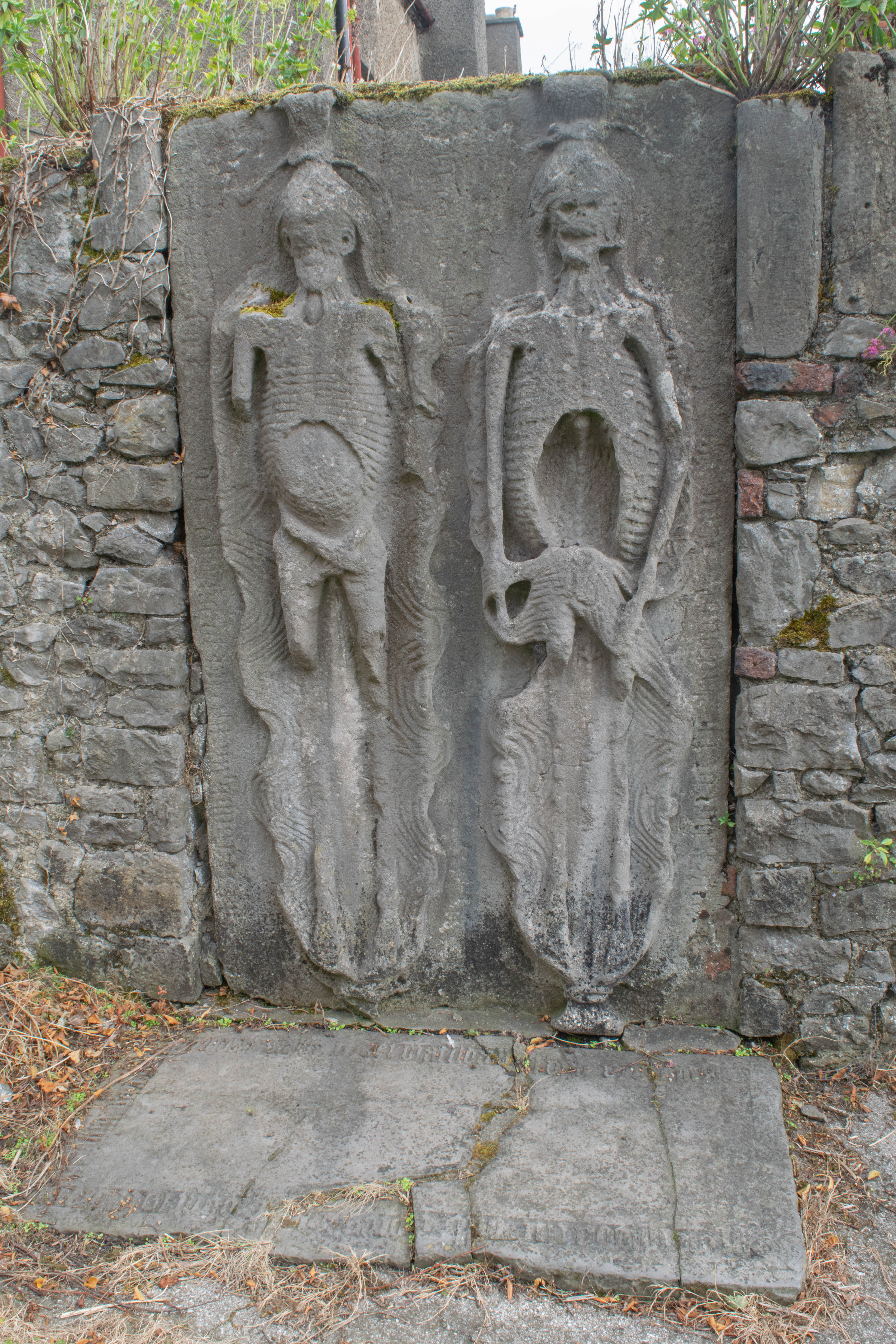 This is a cadaver stone, an Irish variant of the cadaver tomb, and represents Sir Edmond Goldyng and his wife Elizabeth Fleming. It is set into the wall of the churchyard of St. Peter's Church of Ireland in Drogheda, Ireland. It is estimated that this is from the early 16th century.